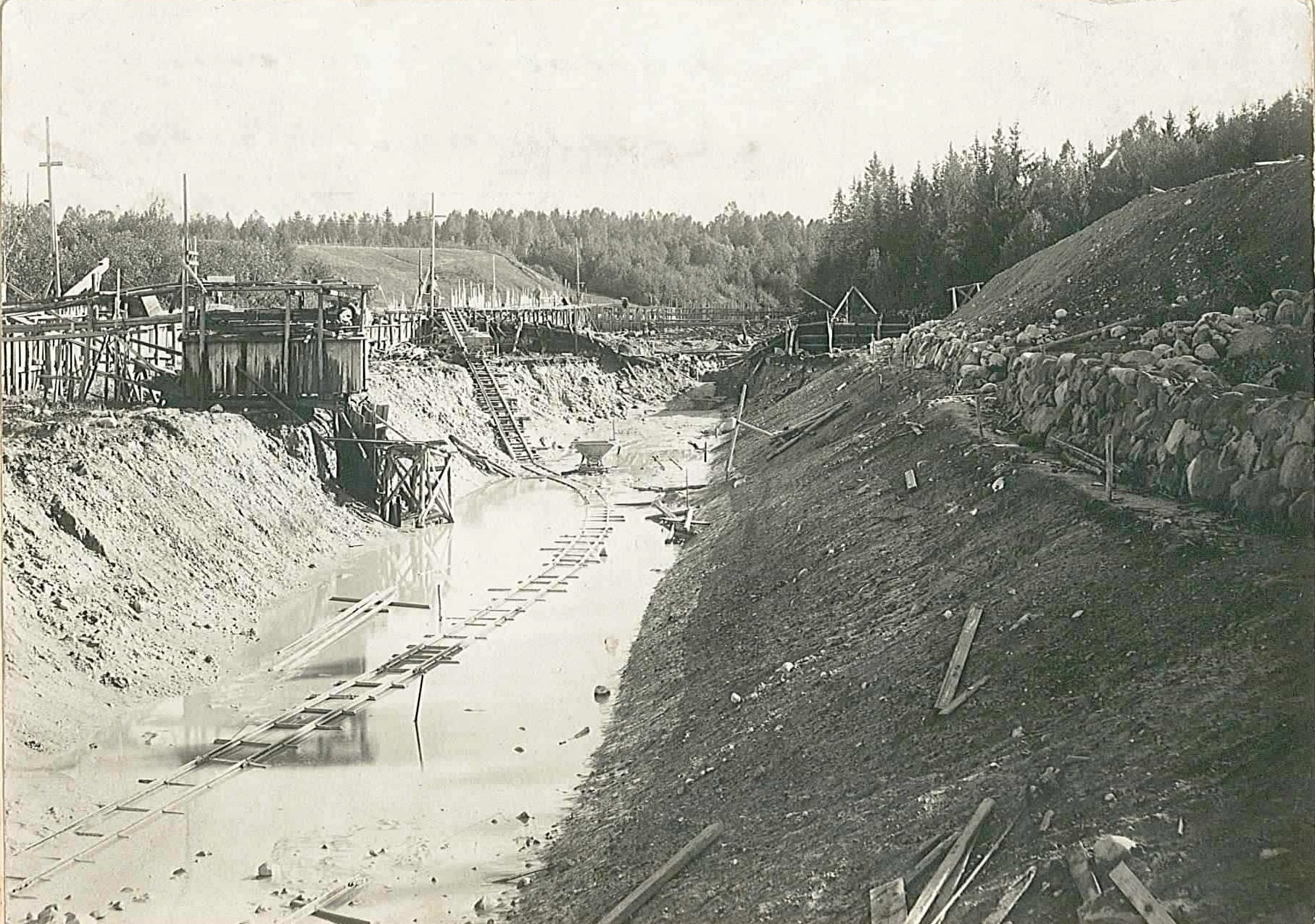 The river Rottnan is made deeper to increase the flow.